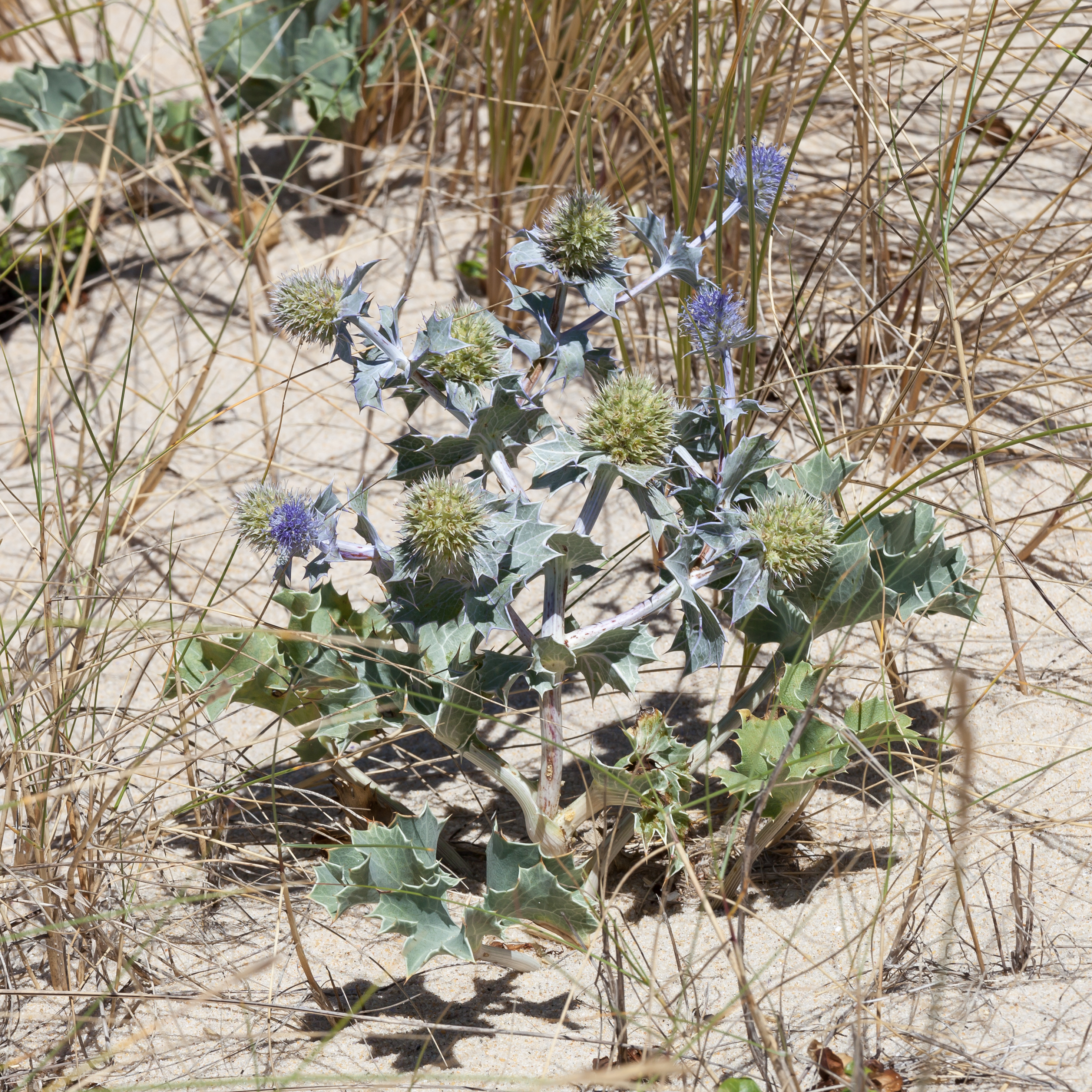 Eryngium maritimum. Beach of As Furnas. Xuño. Porto do Son. Galicia (Spain)